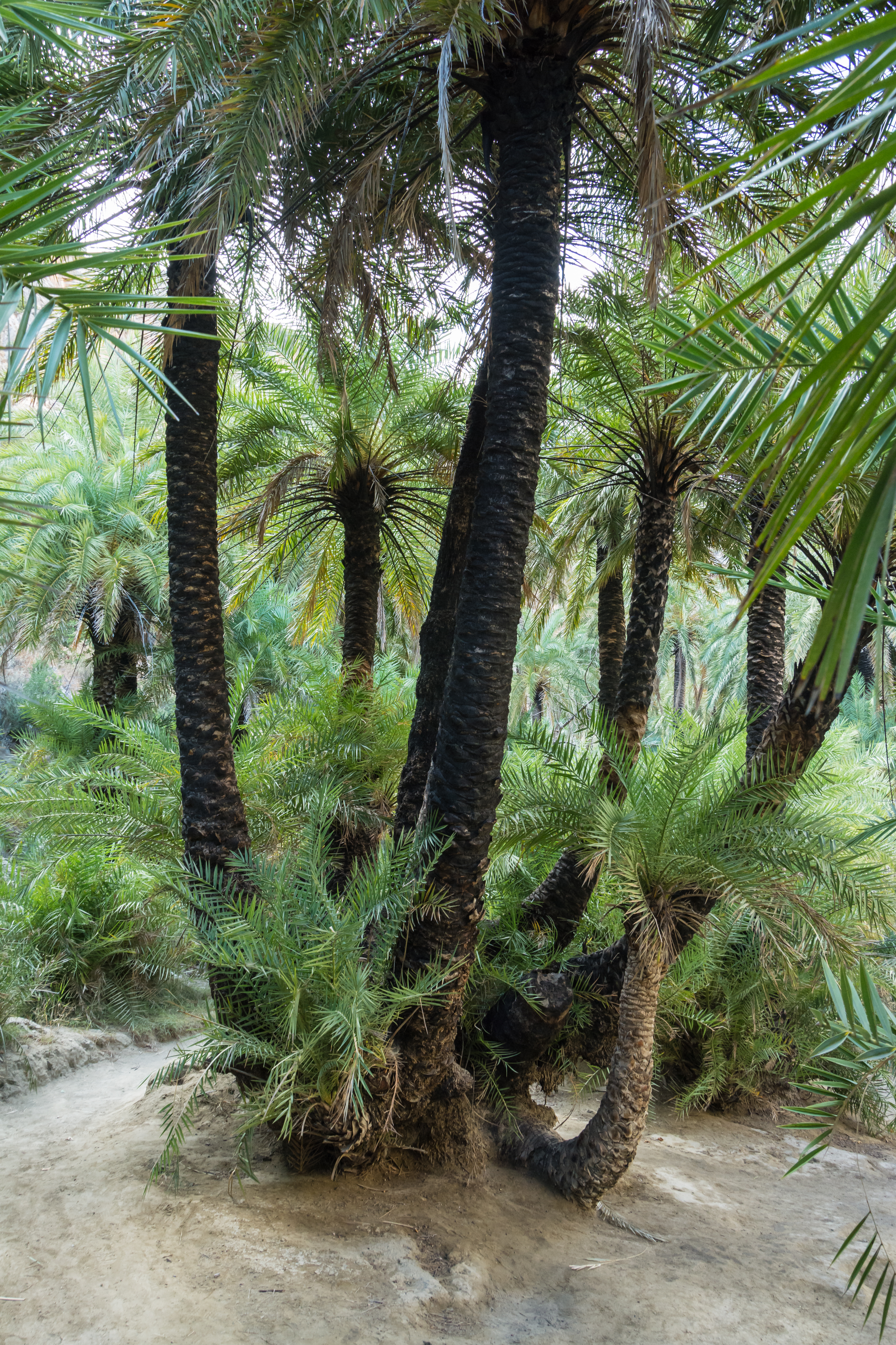 Cretan Date Palms (Phoenix theophrasti) in the palm forest of Preveli (Crete), four years after the forest fire. The trees are still storched, but have recovered from the fire.